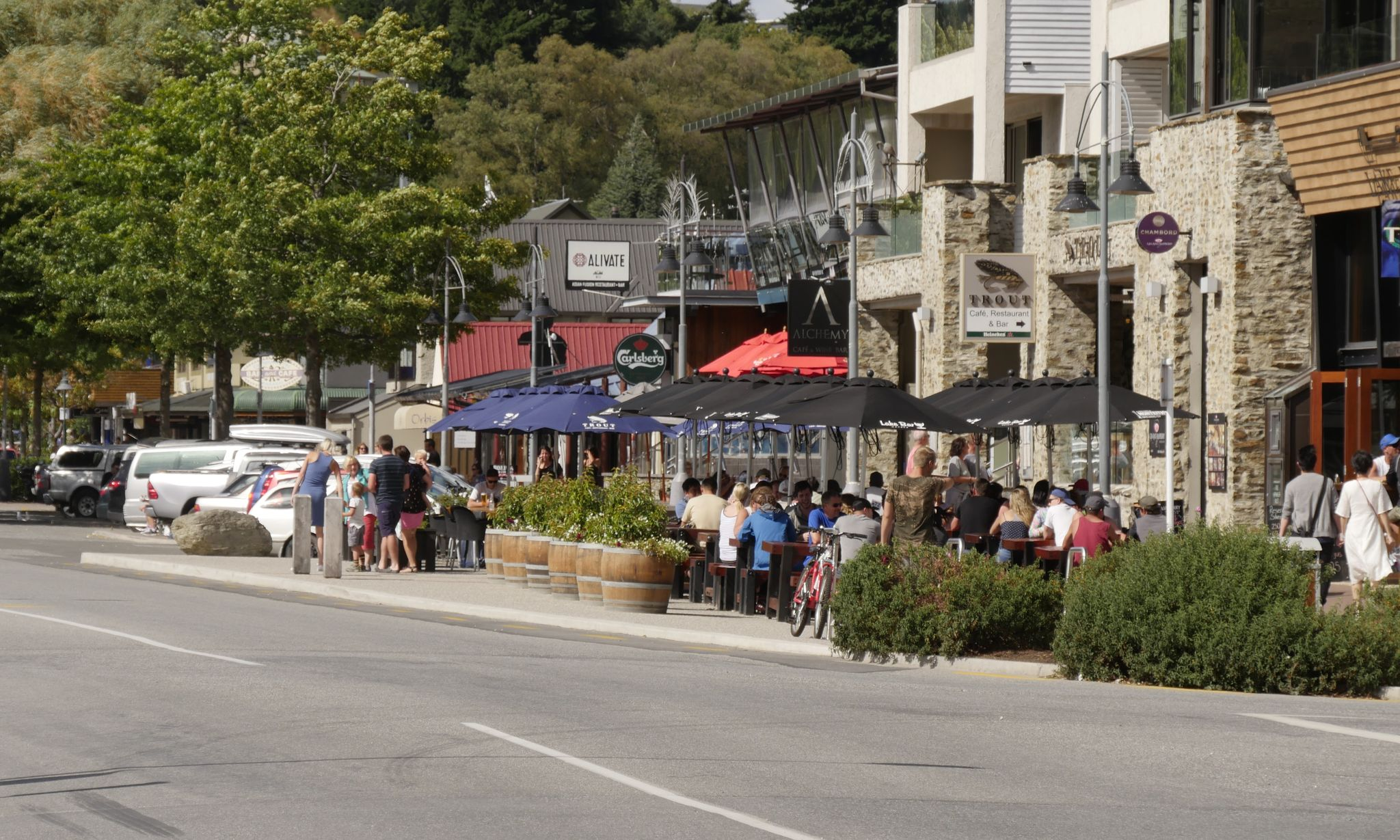 Ardmore Street, Restaurants with seaview, Wanaka, Queenstown-Lakes District, Otago Region, South Island, New Zealand